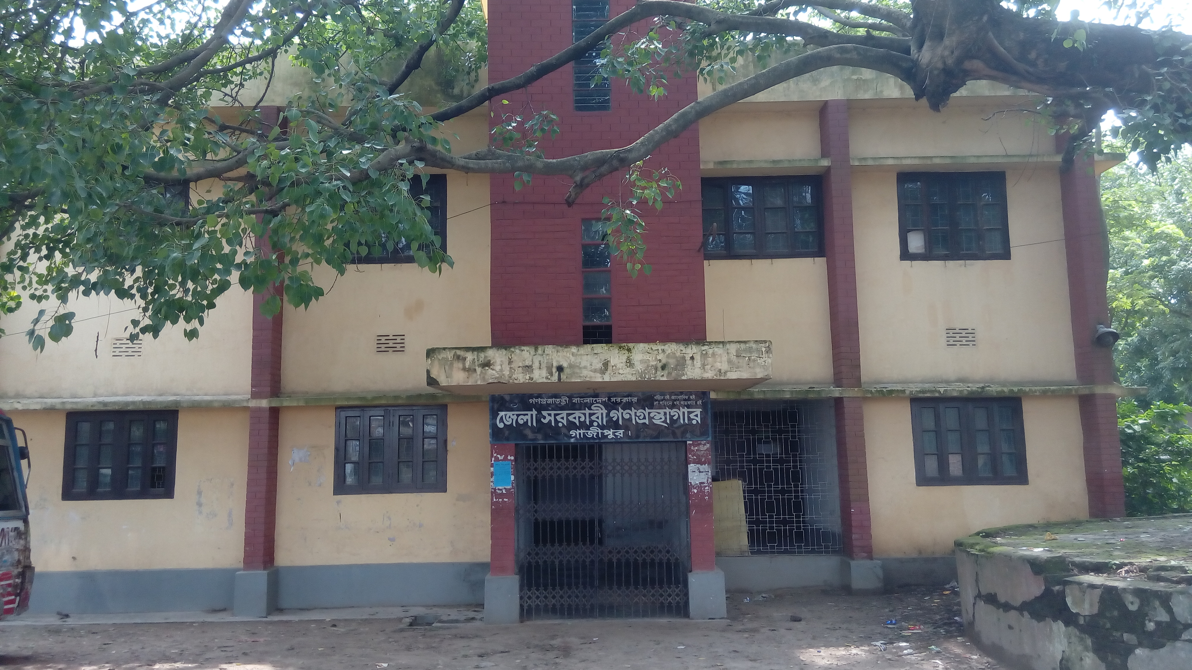 Gazipur Public Library